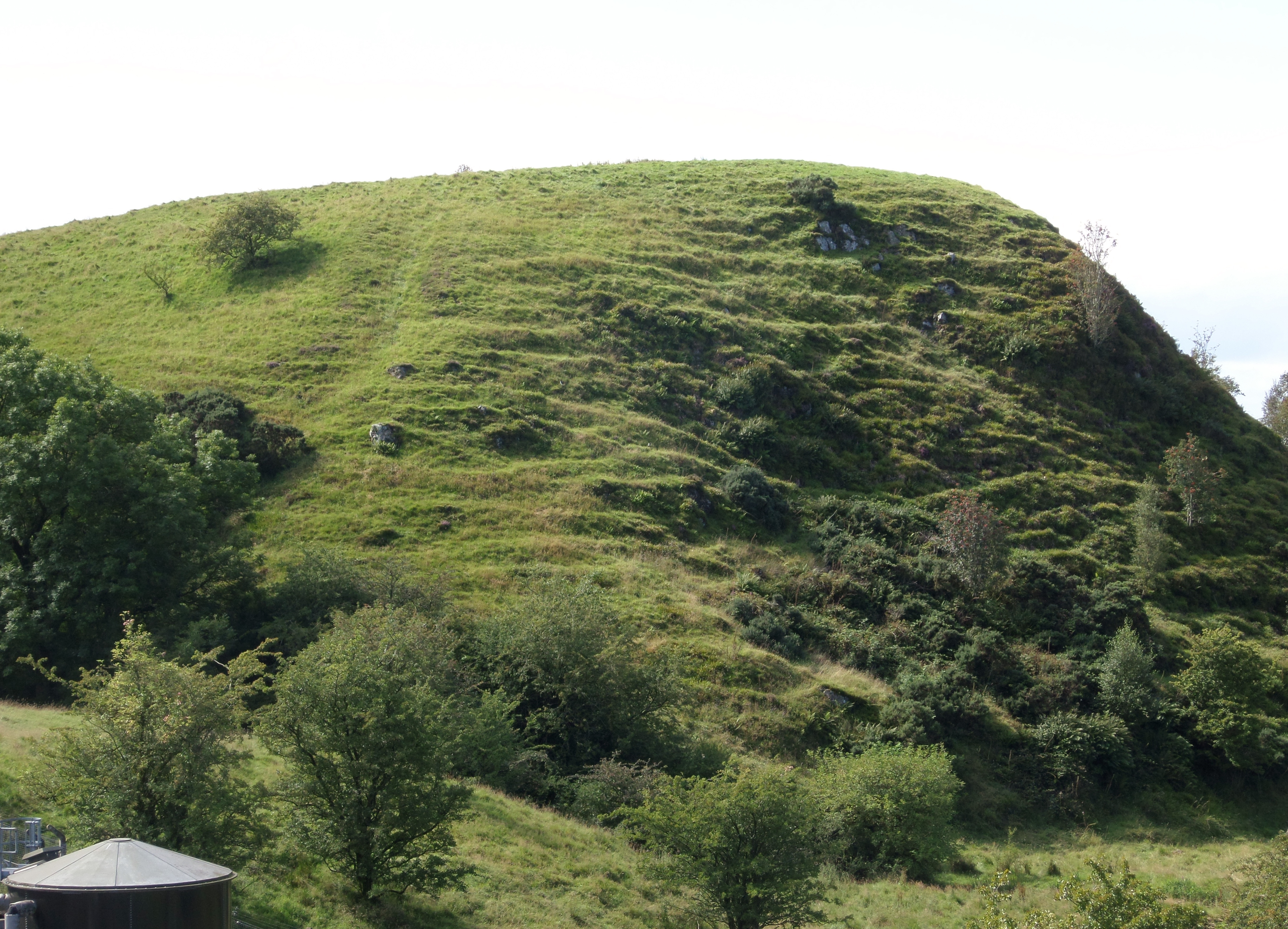 Dunlop or Borland Hill, the site of two previous castles and the ditch known as the Cuckoo Slide, East Ayrshire, Scotland.